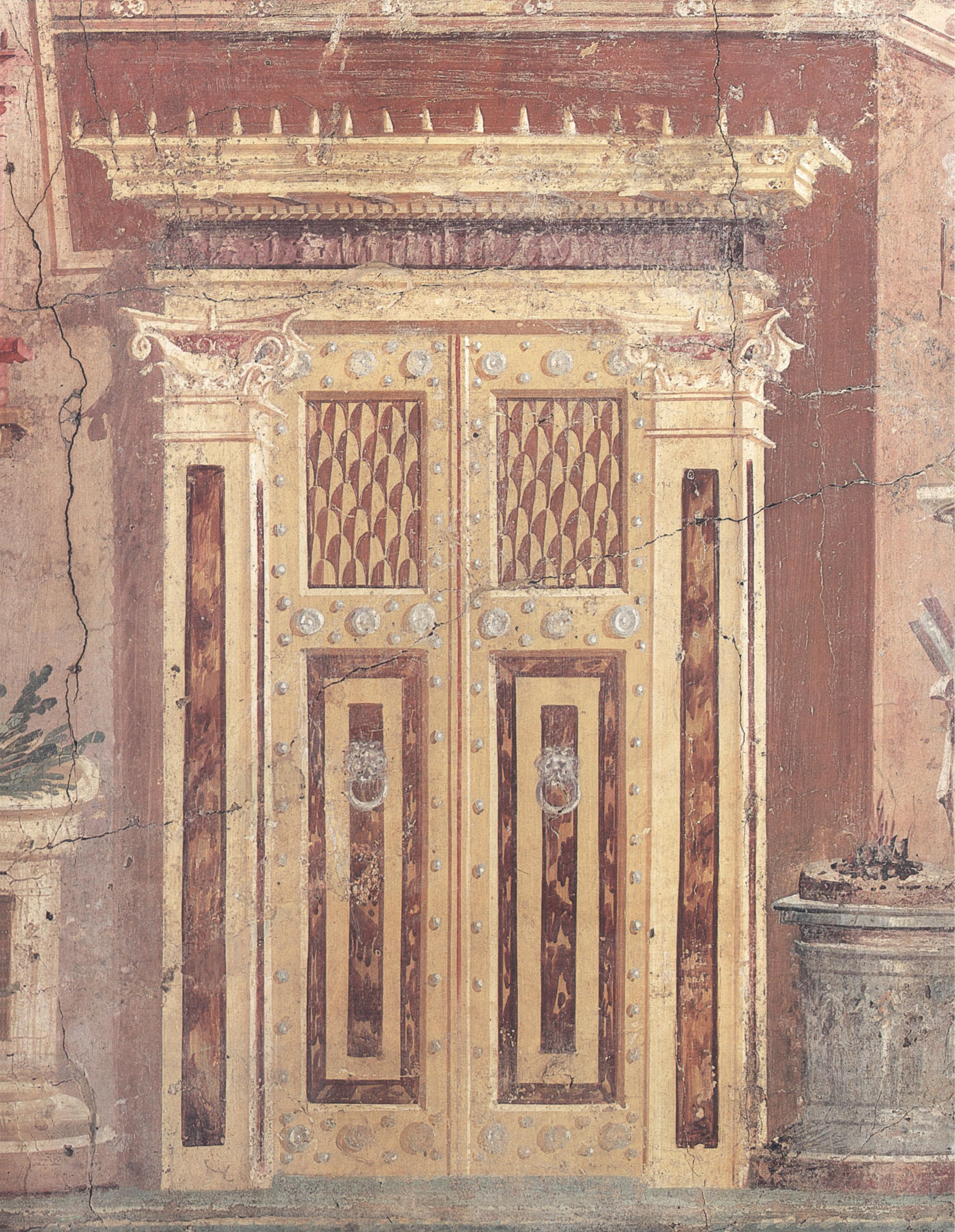 Ornate door standing at the entrance of a fantastic villa. Wall painting on the east wall of the Roman Villa of P. Fannius Synistor at Boscoreale, Italy. The Villa Boscoreale was probably built shortly after the middle of the first century BC. It burned in the eruption of Mount Vesuvius in AD 79 and was rediscovered in 1900.